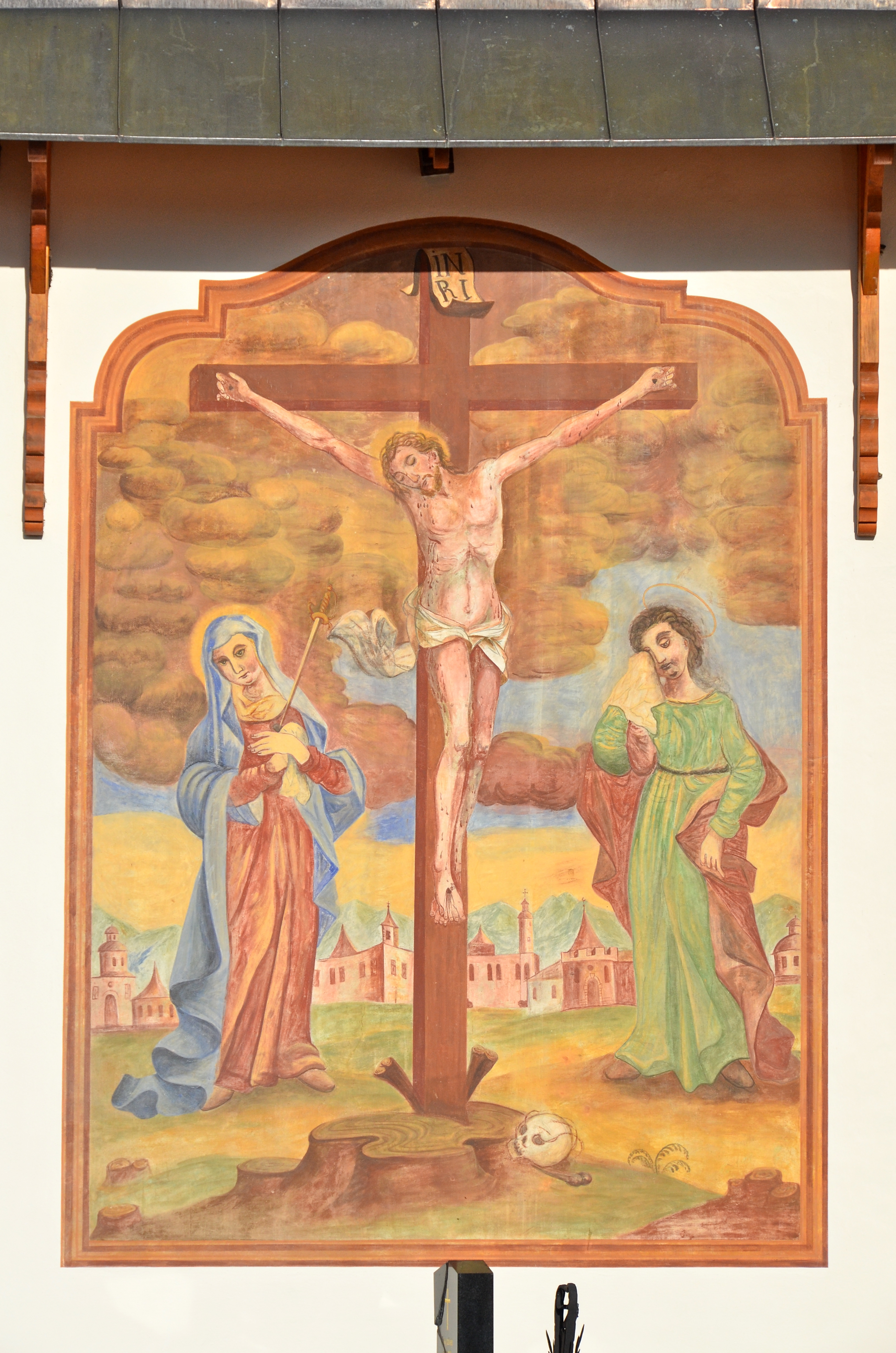 Fresco of crucifixion by Peter Markowitsch (early 20th century) on the southern steeple wall of the parish church holy Mary Rosary Queen on Oberer Kirchenweg 10 at Augsdorf, market town Velden am Wörthersee, district Villach Land, Carinthia, Austria, EU